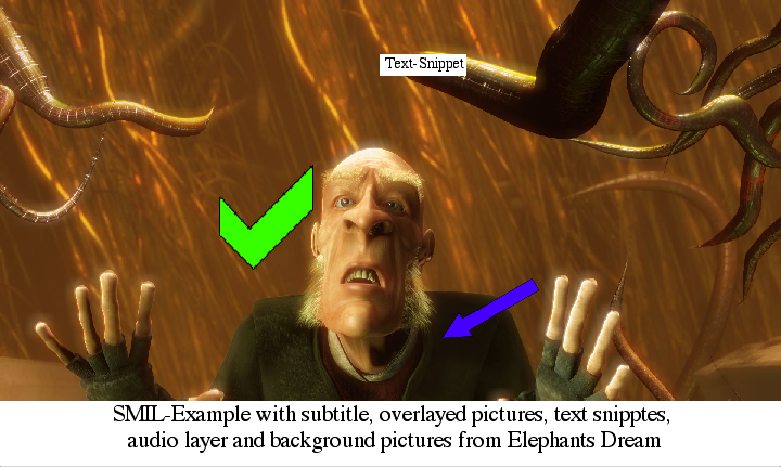 Smil example with subtitle, pictures, text. From the Elephants Dream project